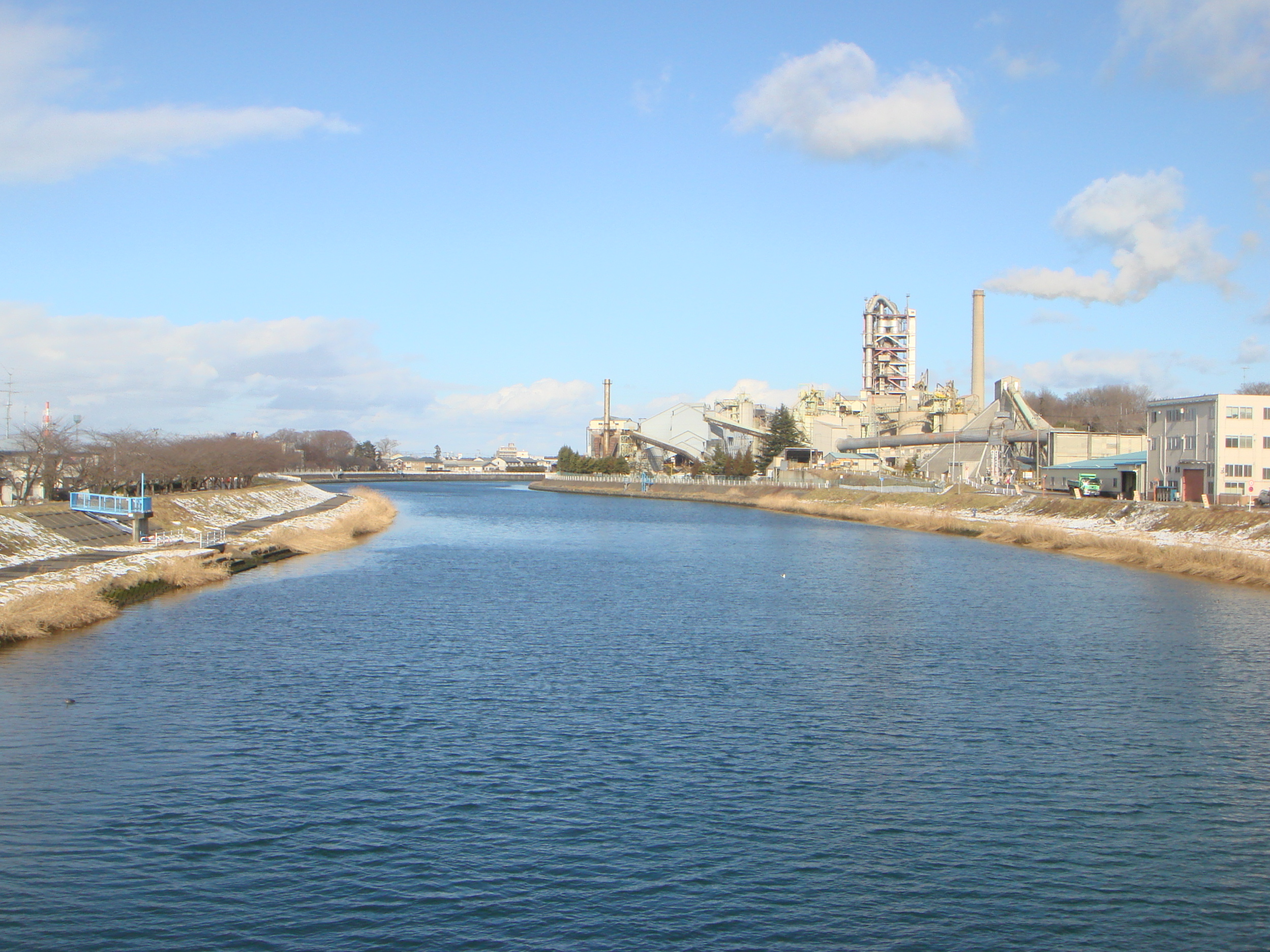 Nida river is flowing into Hachinohe city from Iwate prefecture.